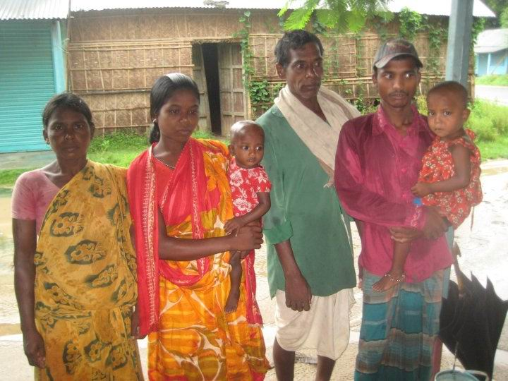 Landless Santal Indigenous People,Dinajpur, Bangladesh